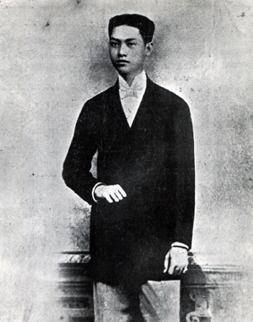 Flaviano Yengko y Abad, Filipino general during the Philippine Revolution.